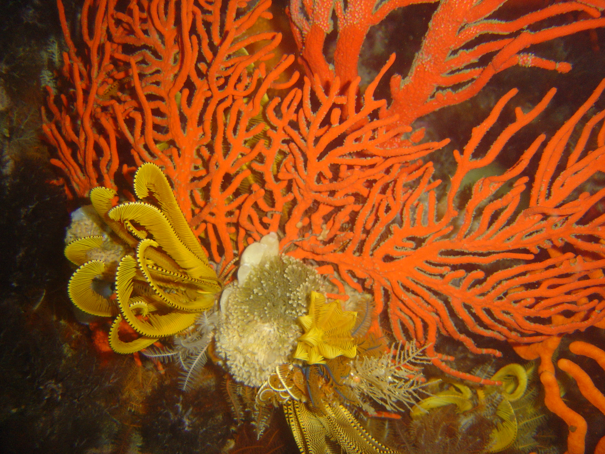 Miller's Point, Cape Peninsula.